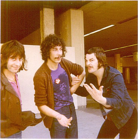 Tony Ashton (right), Mick Liber (centre) horsing aroundDepicted people: Tony Ashton and Mick Liber